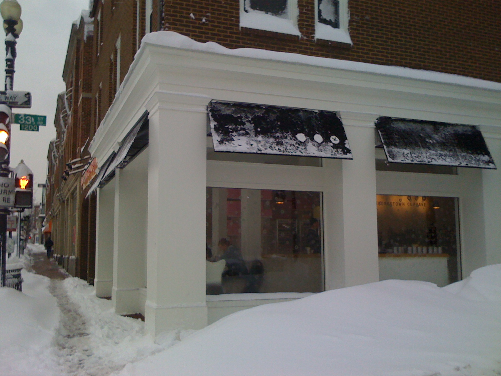 Georgetown Cupcake shop at the corner of 33rd and M St in Georgetown, Washington, DC, open during the Second North American blizzard of 2010.